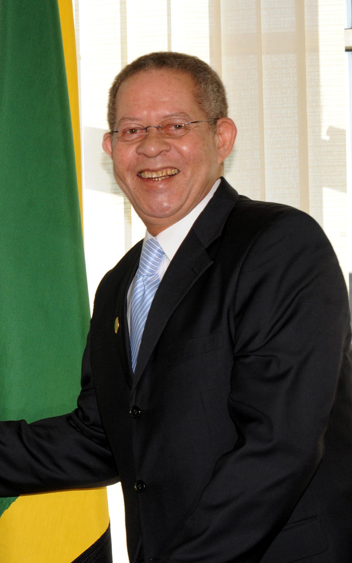 Bruce Golding